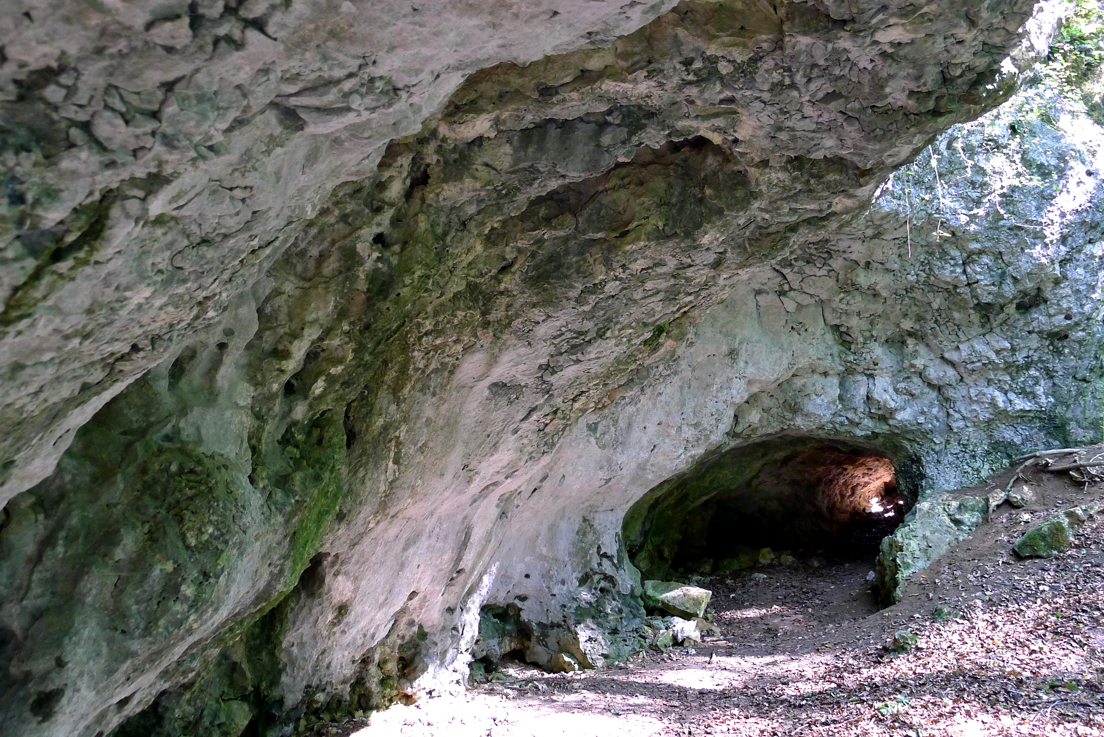 The Eselsburg Valley, beautiful landscape on the Swabian Alb.